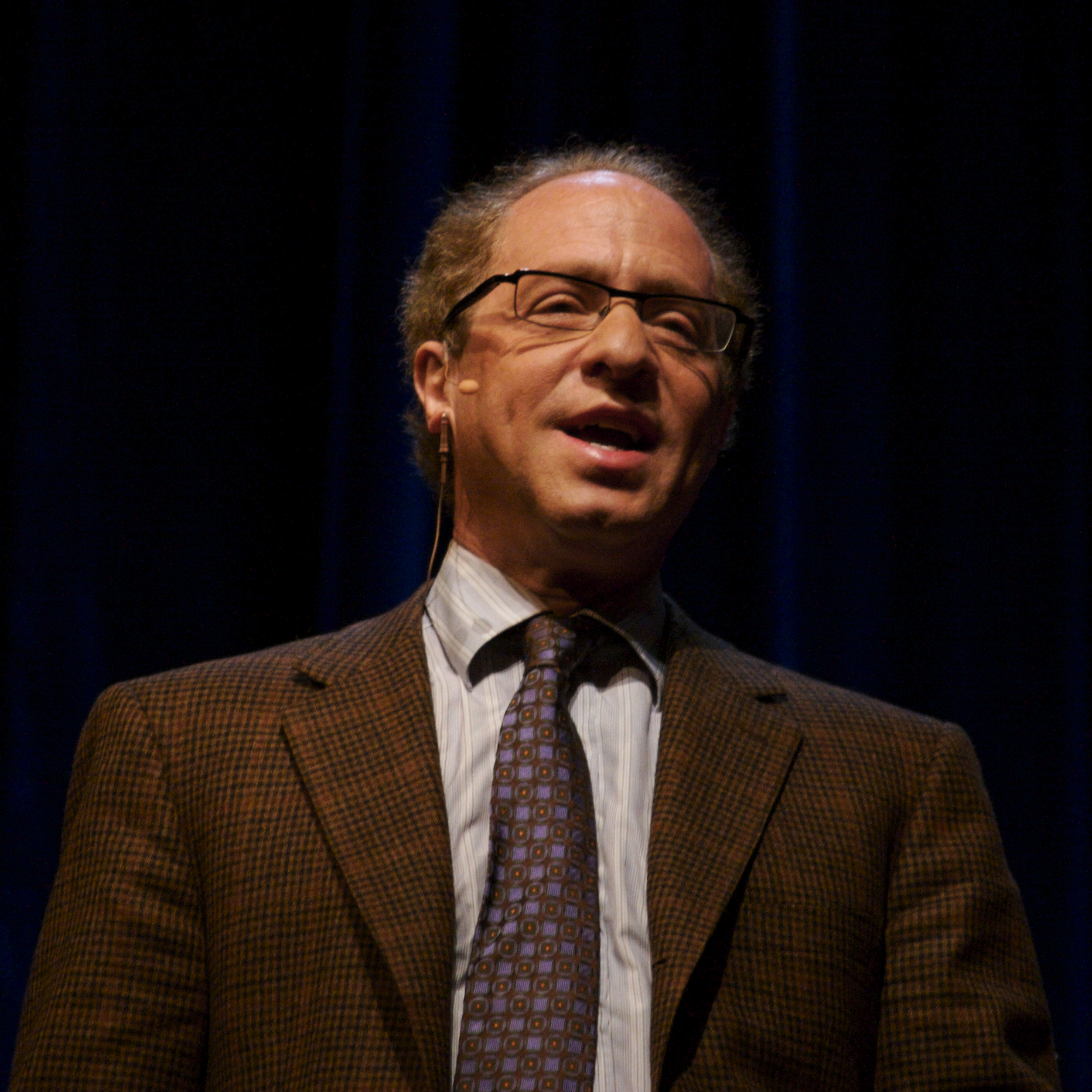 Raymond Kurzweil, an American academic and author.